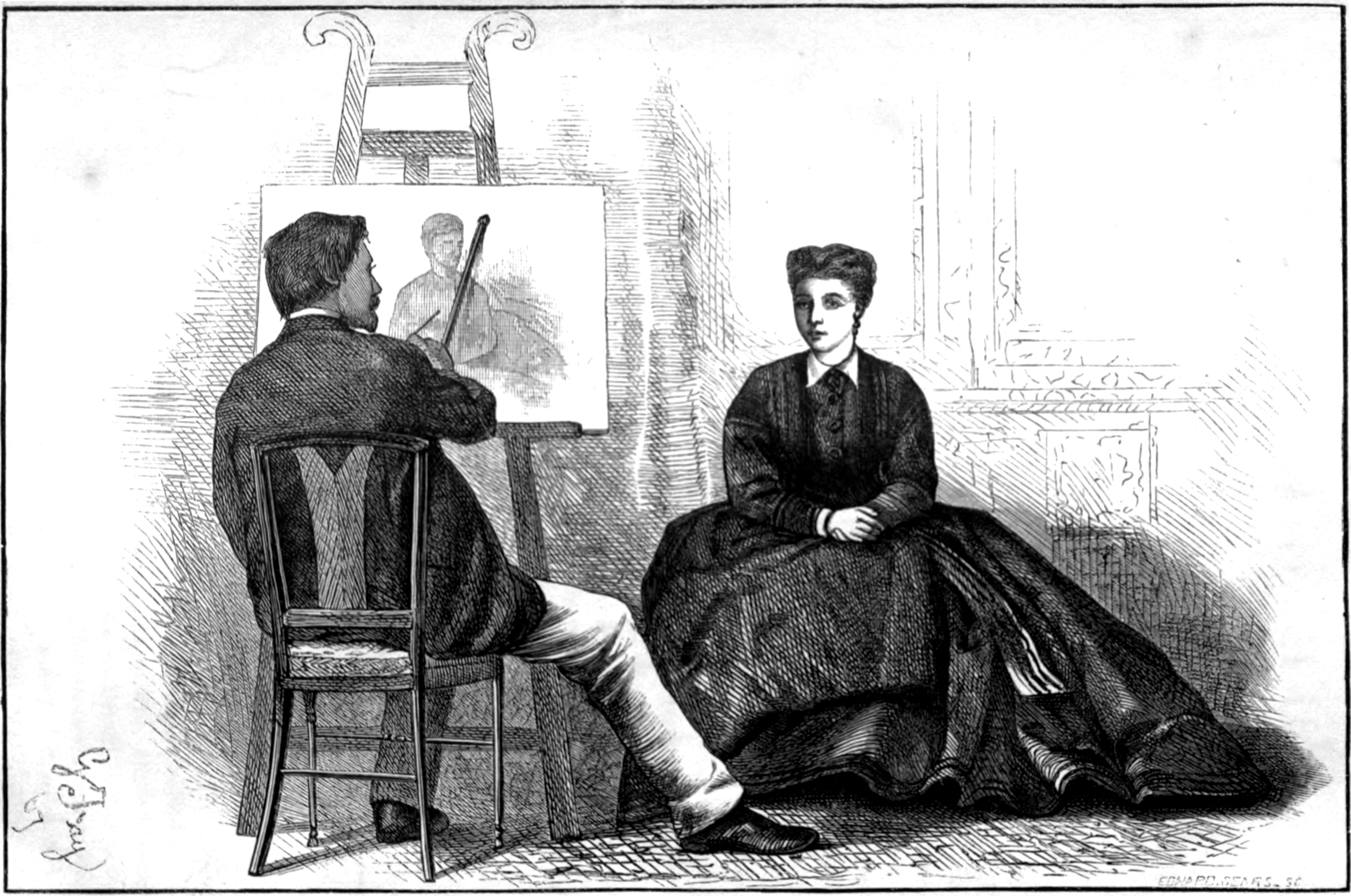 This is an illustration from The Galaxy 5(1), captioned "The Story of a Masterpiece". It is intended as an illustration to story story of that name, by Henry James